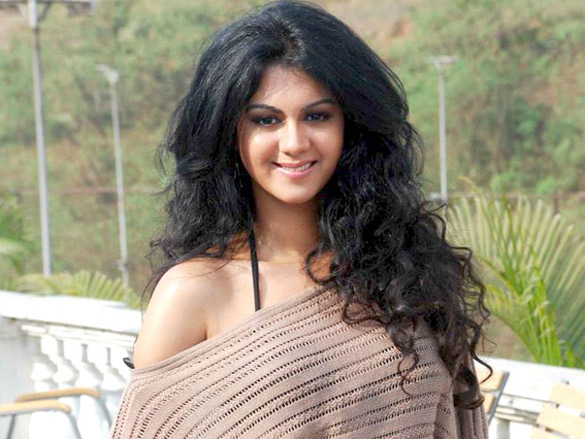 South Indian actress Kamna Jethmalani's photo-shoot